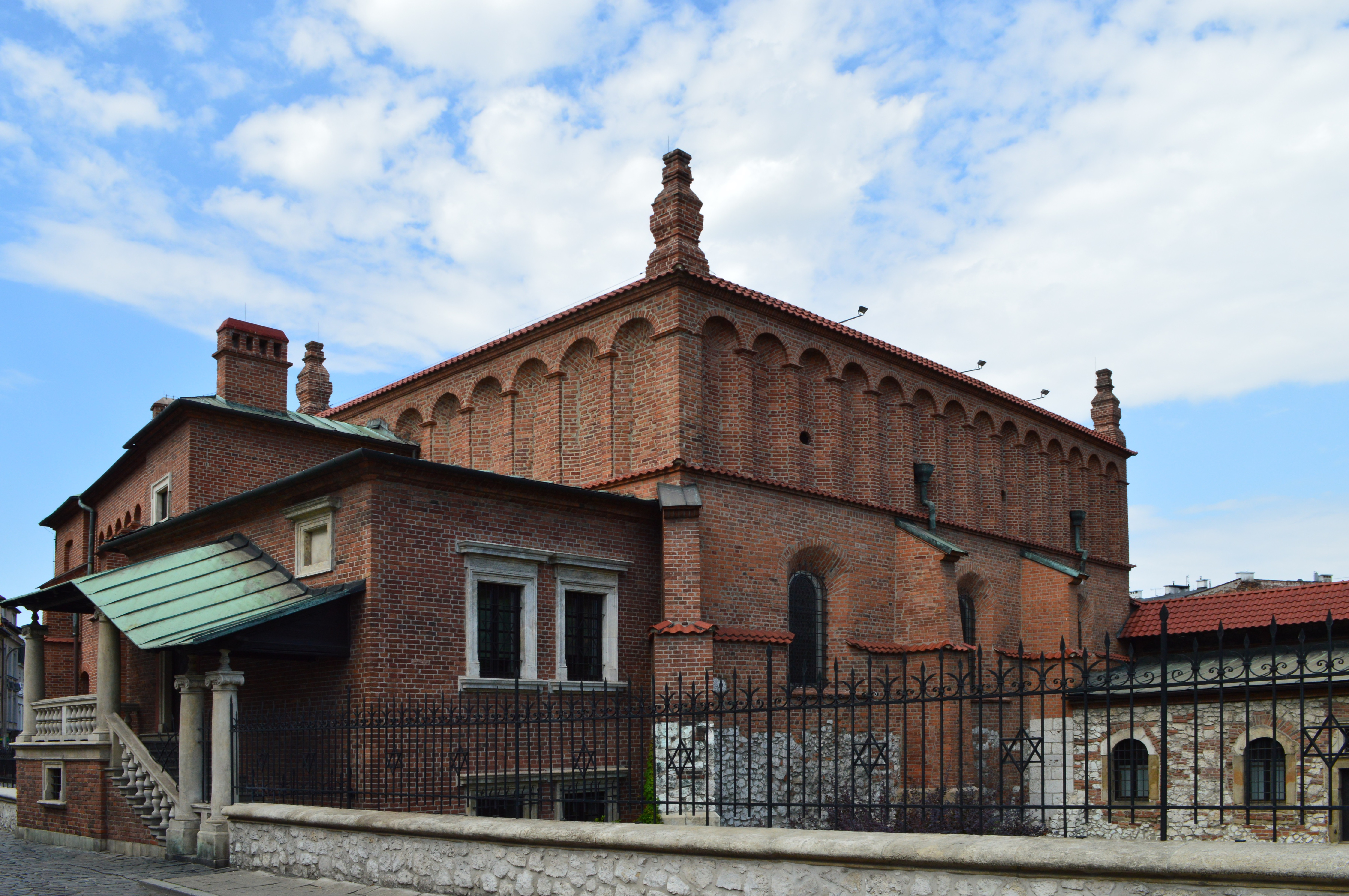 Restored 'Old Synagogue' dating from the fifteenth century housing a museum of local Jewish culture and history in the Kazimierz District of Cracow (Kraków), Poland. The Scotch Mist Gallery contains many photographs of historic buildings, monuments and memorials of Poland.